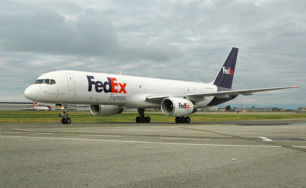 First arrival of Morningstar 757s to CYVR